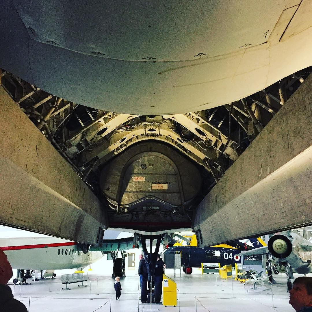 Bomb bay of a Vulcan bomber